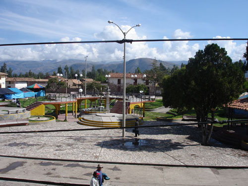 Main Square in Huaripampa. Runa Simi: Waripampa llaqta.